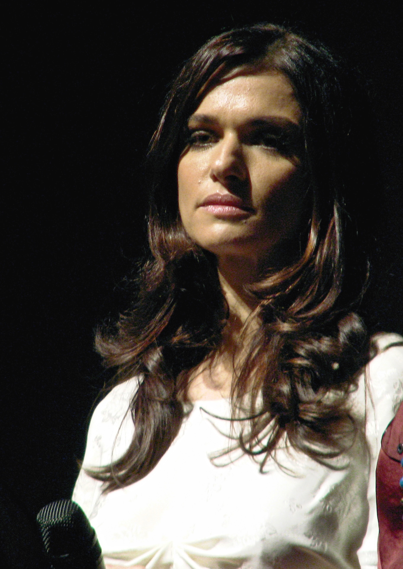 Actress Rachel Weisz at the Toronto International Film Festival premiere of The Whistleblower in 2010.